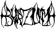 Burzum's logo as it appeared on a xeroxed cover for the "Burzum - Demo II", 1991, release